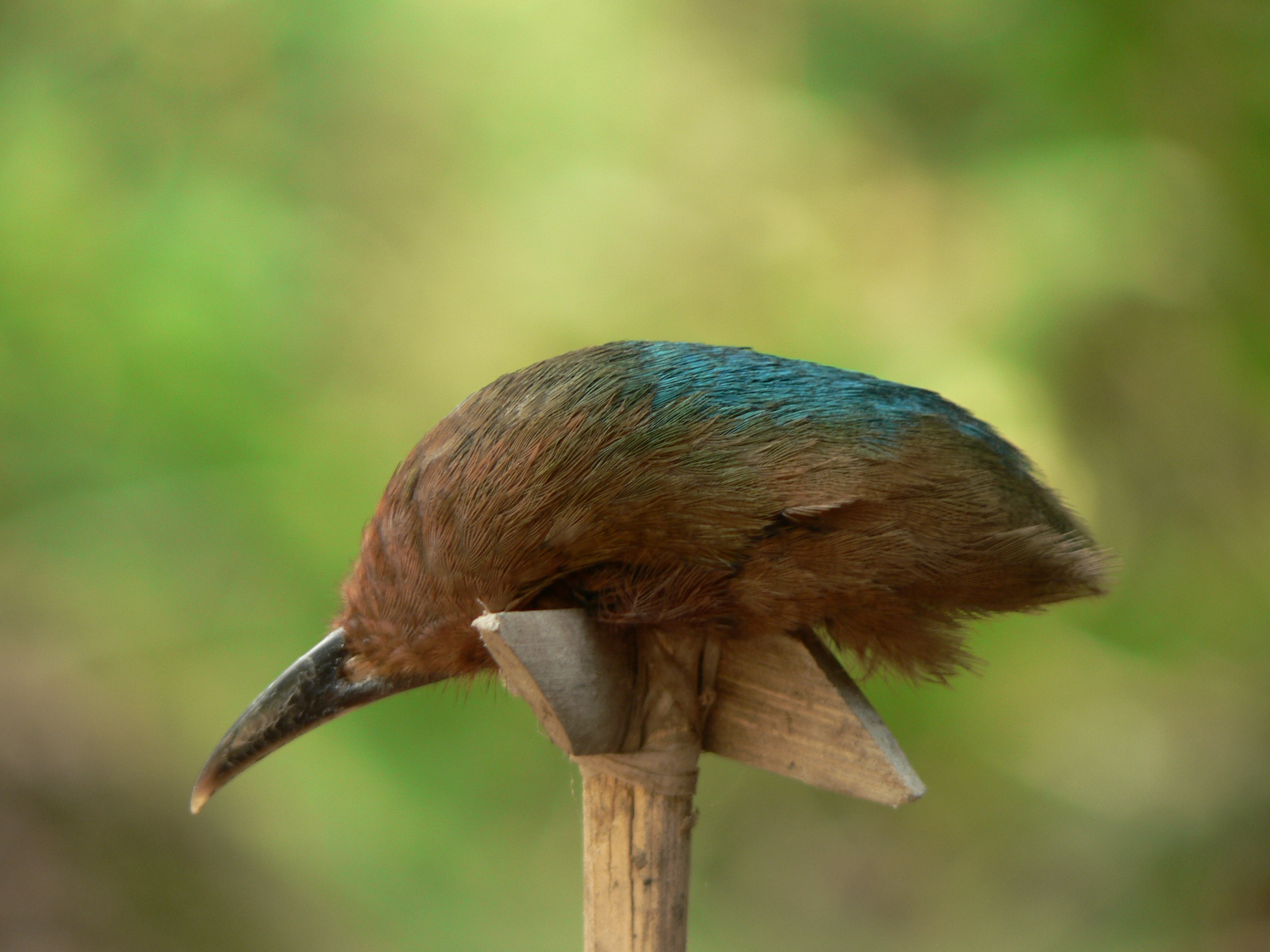 Dead Pitta head